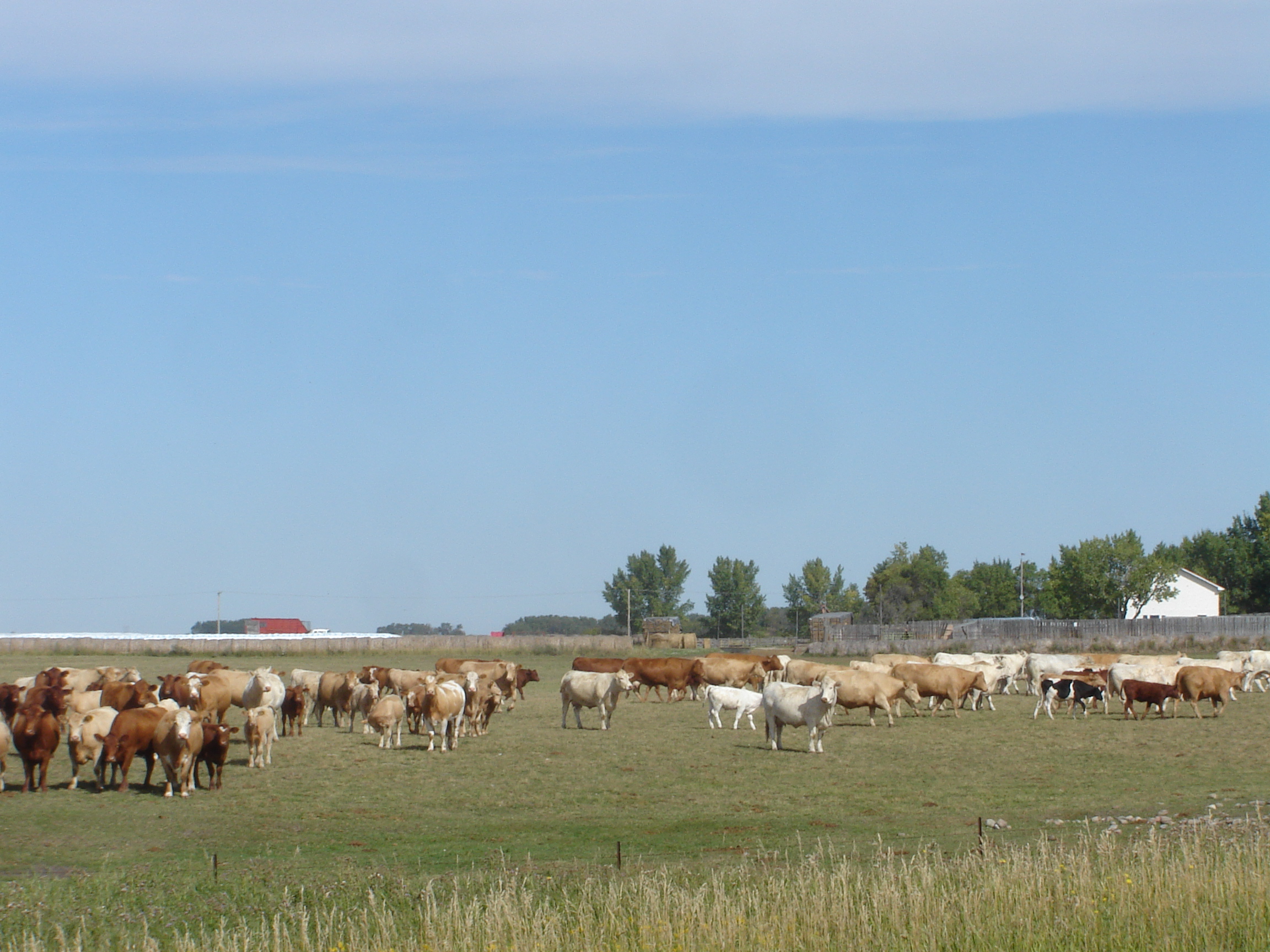 Cows, Agriculture in Saskatchewan. Photo taken from Saskatchewan Highway 1 Trans Canada Highway